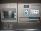 photo of a Cash point